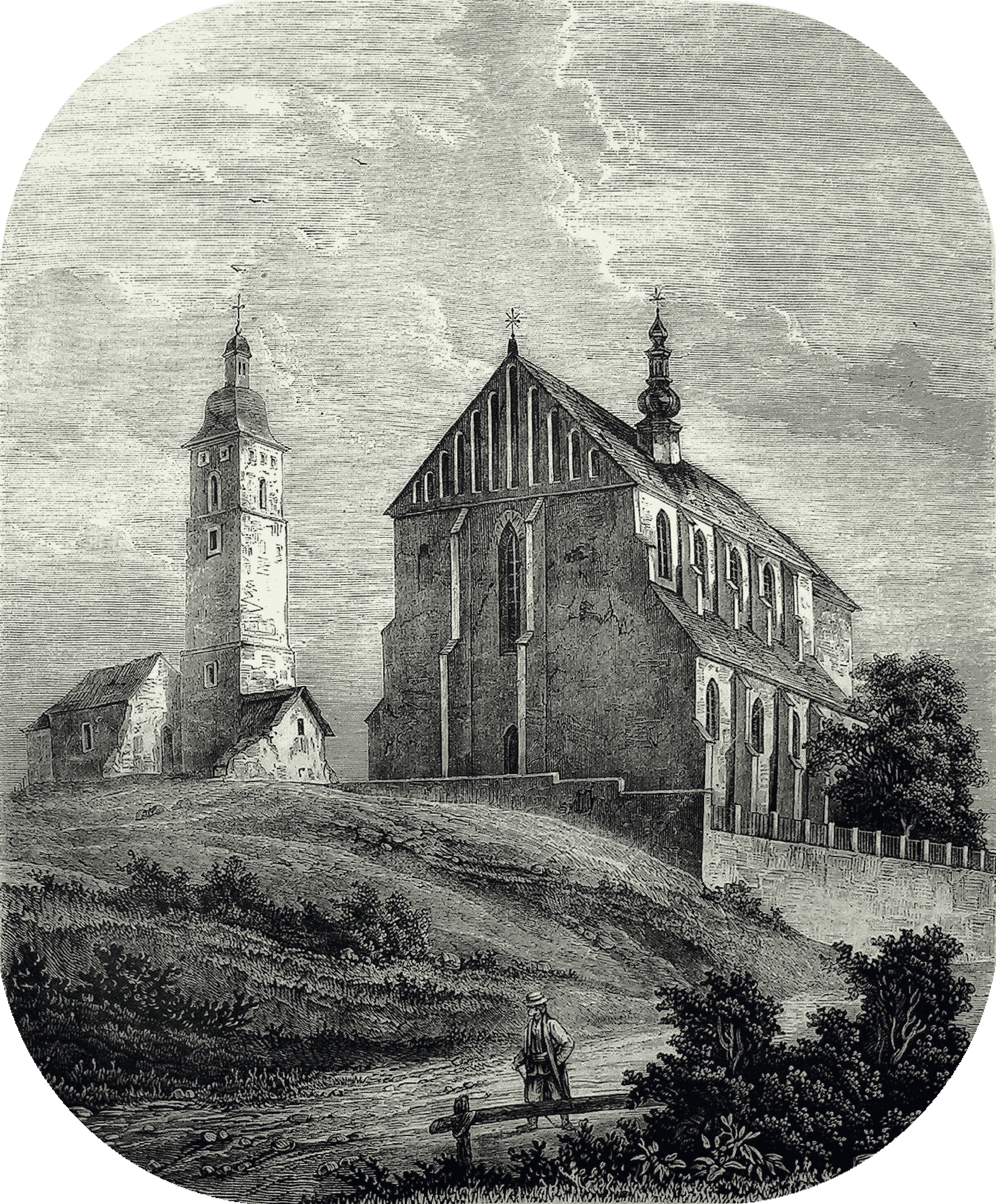 Biecz, Gothic parish church of Corpus Christi